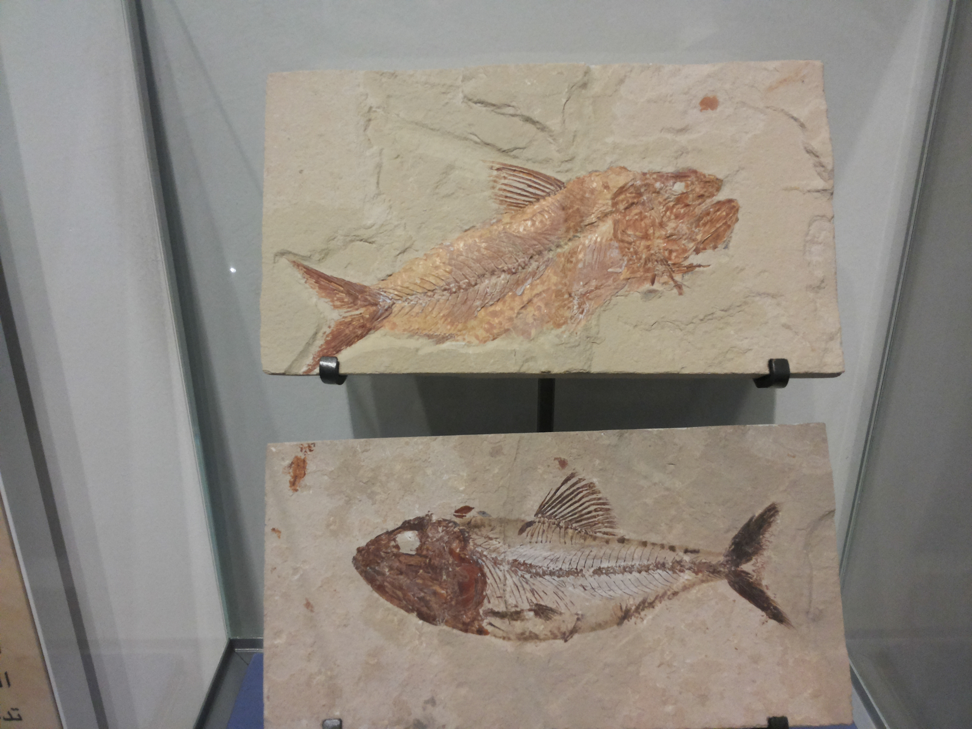 Fossil fish in limestone rock at Sharjah Aquarium Sharjah UAE 2013